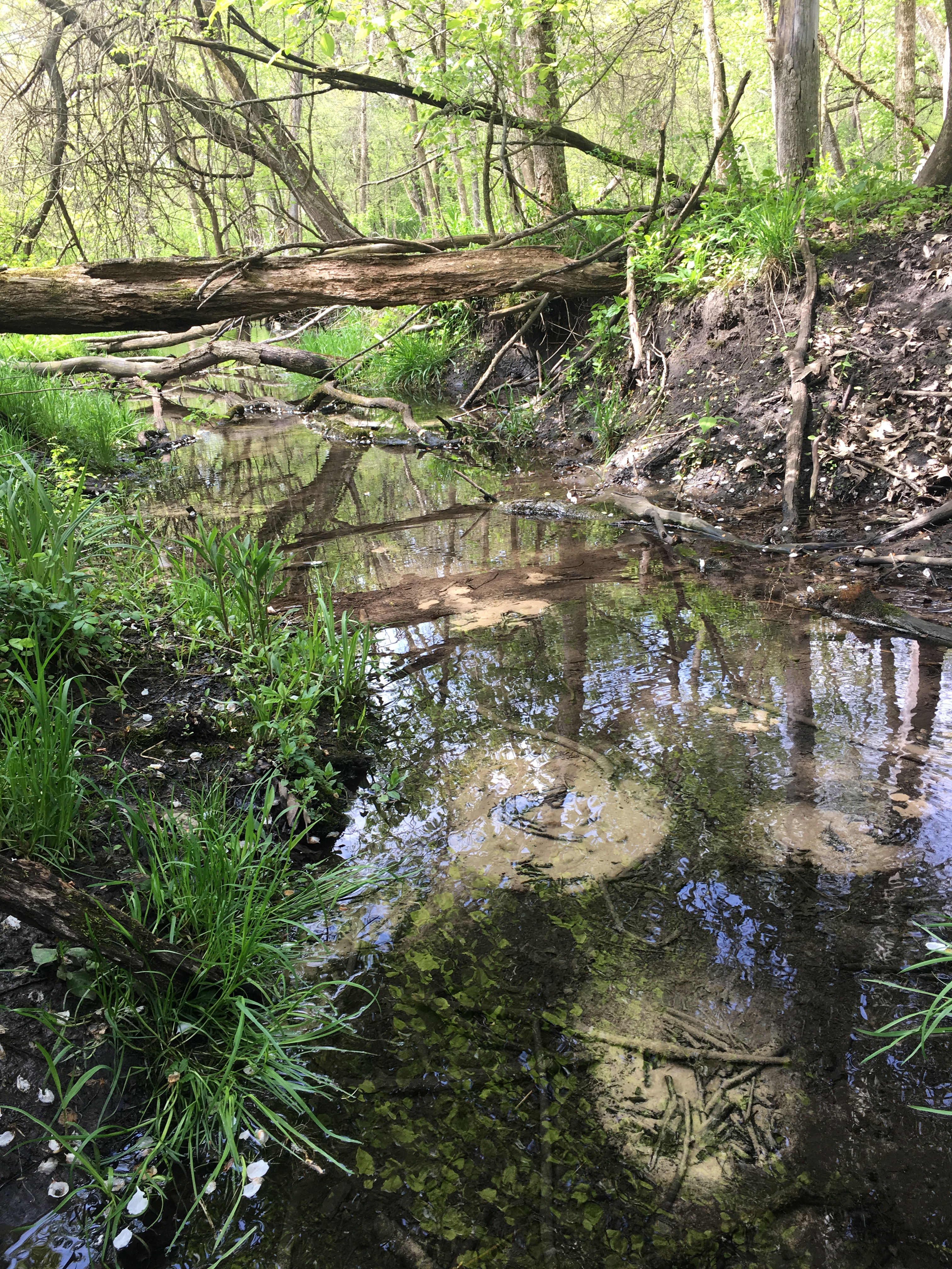 A picture of some of the actual springs on site. The light, sandy colored areas are where the water escapes from the ground.